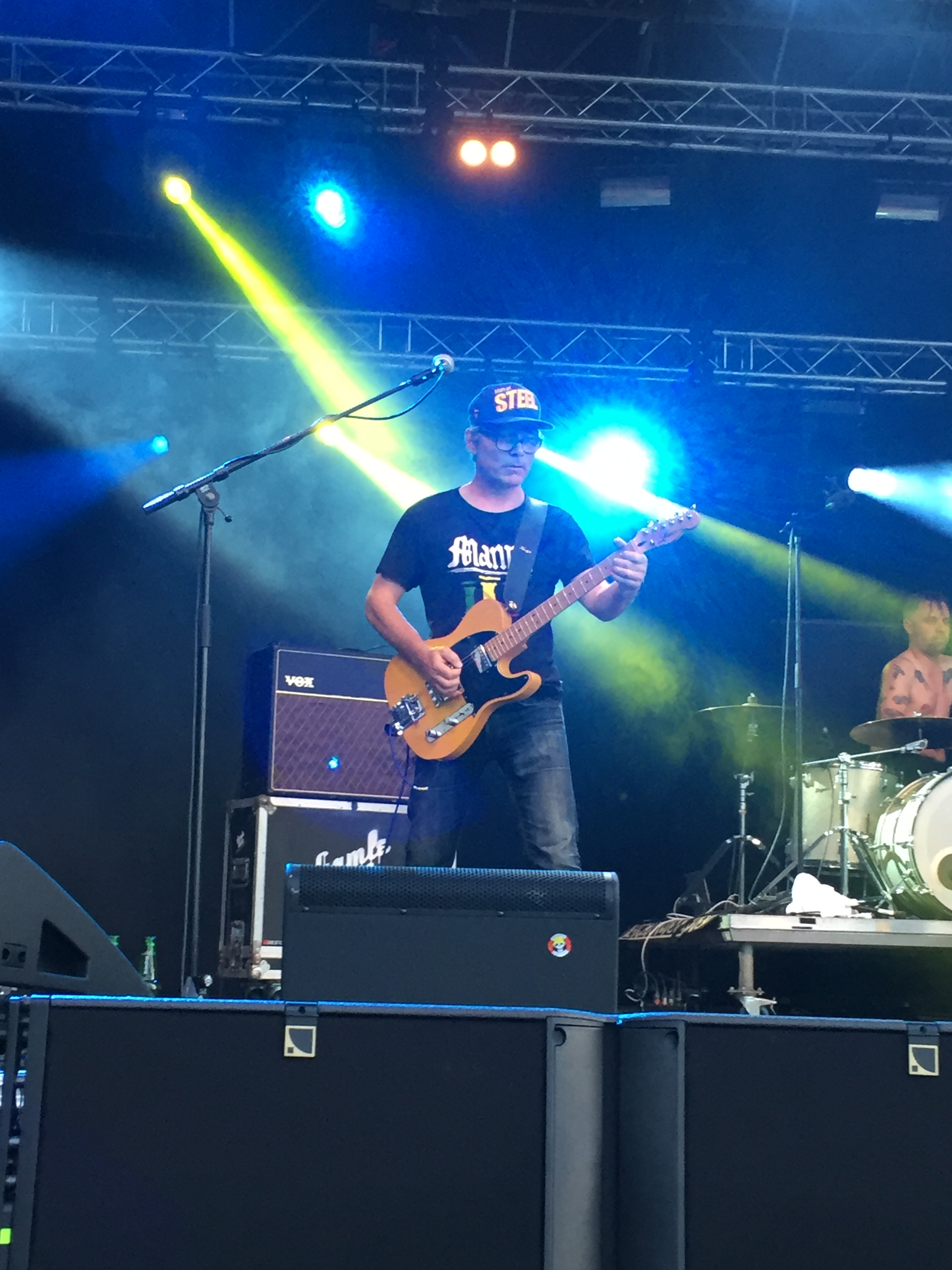 Norwegian guitarist Petter Pogo playing with Senjahopen at Under Festningen, Oslo, Norway 2016-08-05.